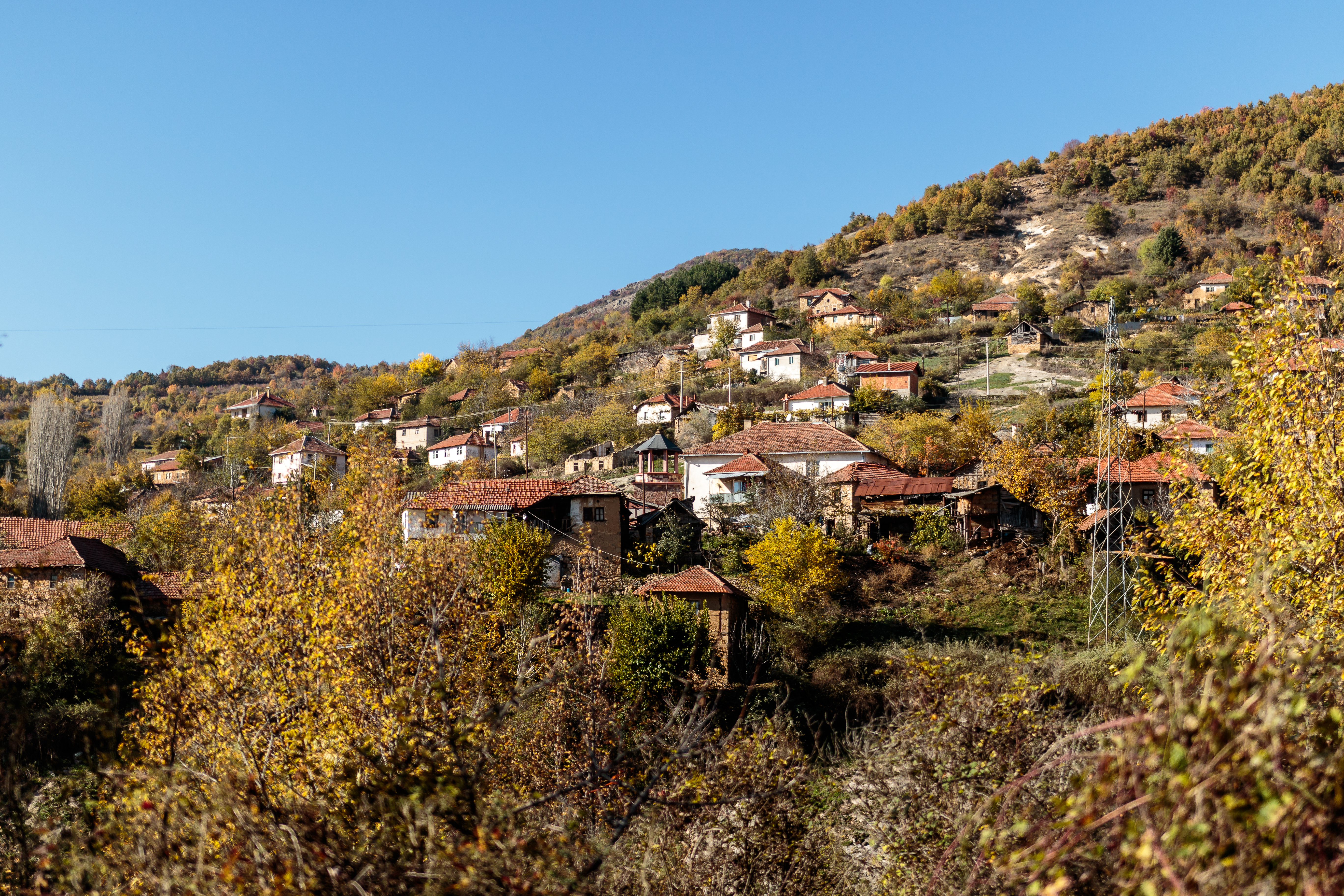 Panoramic view of the village of Dobrevo, Zletovo-Probištip Region, Macedonia